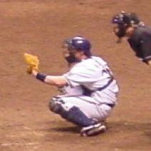 Mike Piazza up to bat against Milwaukee Brewer pitcher Doug Davis.